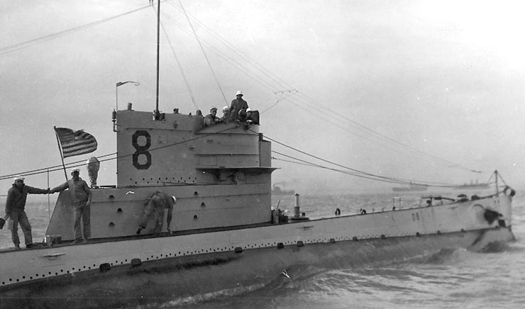 USS O-8 (Submarine # 69) with the "Victory Fleet" off New York City in 1919. Original caption: “Photo # NH 61818 USS O-8 with the "Victory Fleet" off New York City” — removed caption